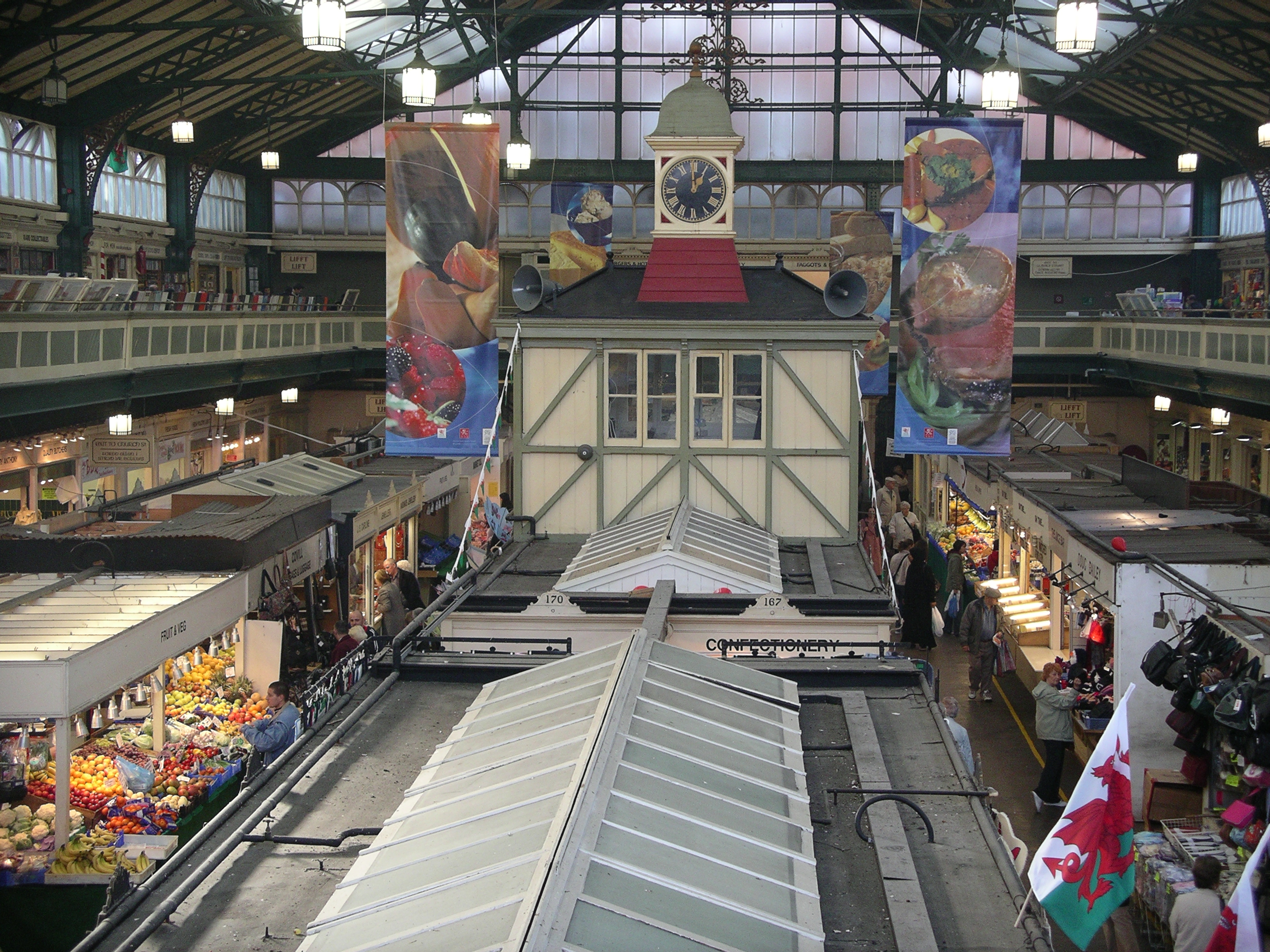 Cardiff indoor market